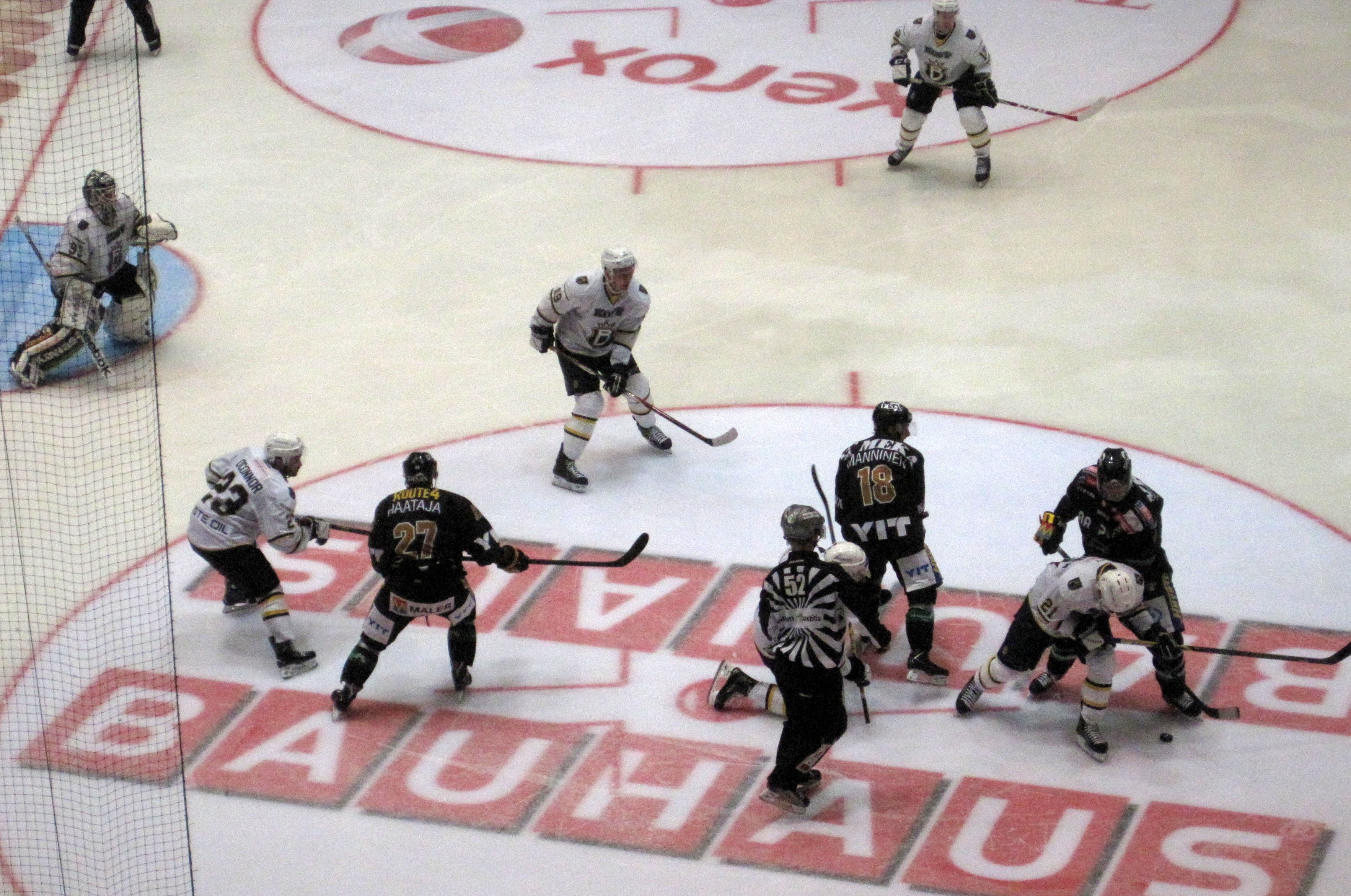 The game Kärpät vs Espoo Blues in the Oulu ice hall.